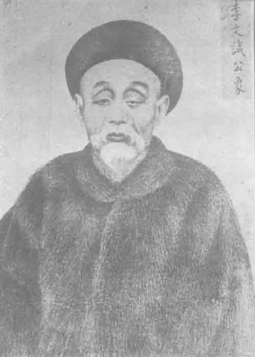 Li Wentian, scholar and politician of the Qing Dynasty.